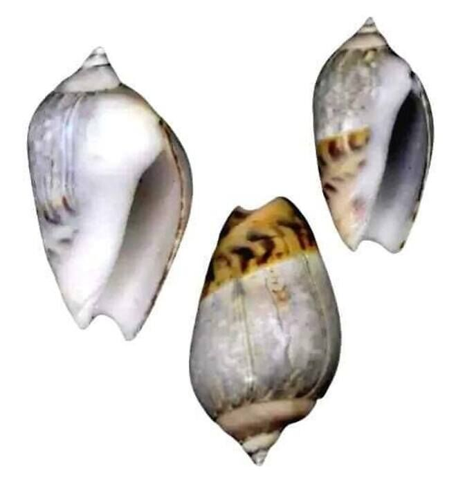 Three seashells of Agaronia gibbosa (Born, 1778)[1] from the collection of Naturalis Biodiversity Center, Taken in India.